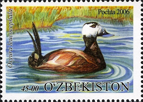 Stamps of Uzbekistan, 2006